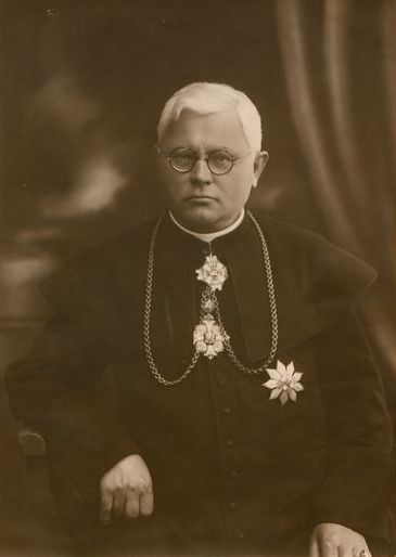 Juozas Tumas-Vaižgantas in 1928. He wears the cross of the Samogitian Capitulum and the Order of the Lithuanian Grand Duke Gediminas (2nd degree) which he received on 15 May 1928.